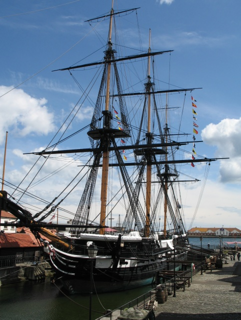 H.M.S. Trincomalee: Hartlepool Maritime Experience